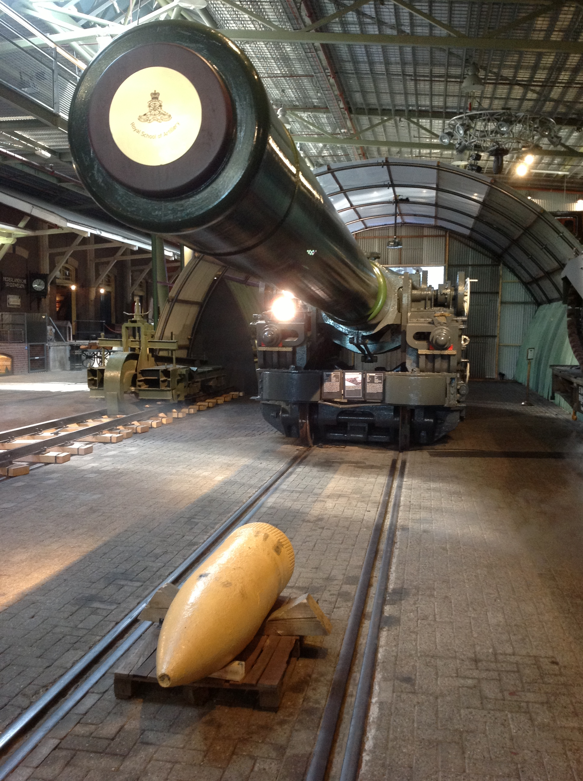 Frontal view of BL 18 inch Railway Howitzer with shell. Seen in Spoorwegmuseum, Utrecht in the Netherlands. Temporary exhibition: ‘Sporen naar het front’ in 2013